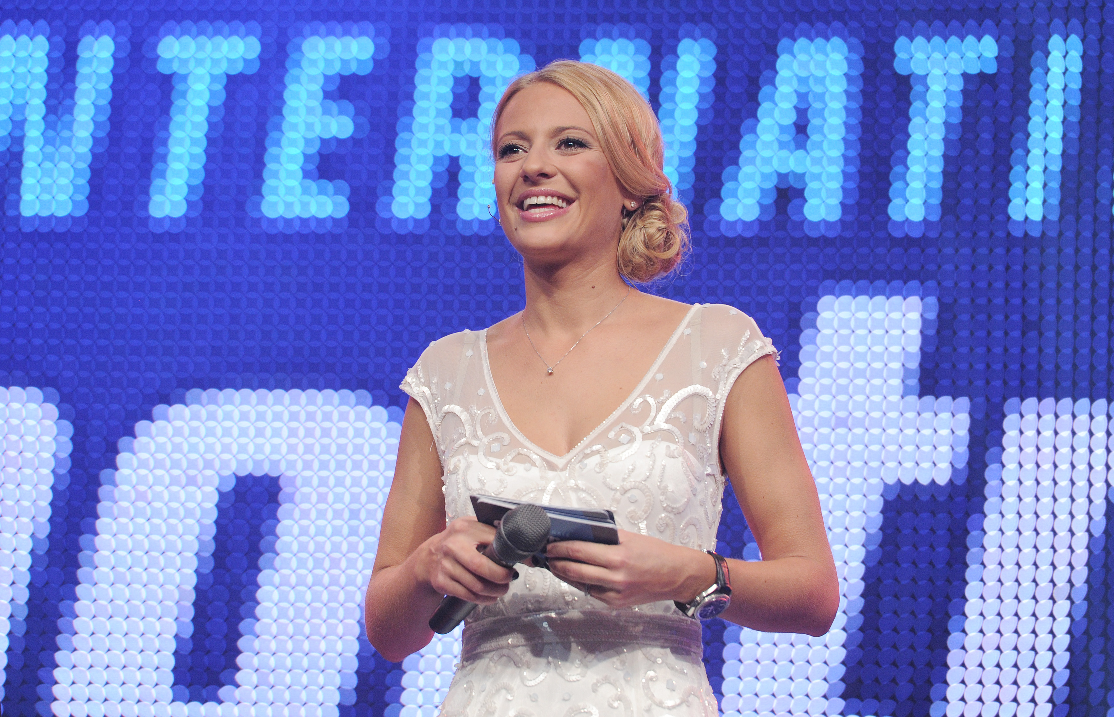 Davos, 03.10.2014. Sport, 12. Internationale Sportnacht Davos 2014. Moderatorin Christa Rigozzi.. Copyright by: foto-net / Kurt Schorrer